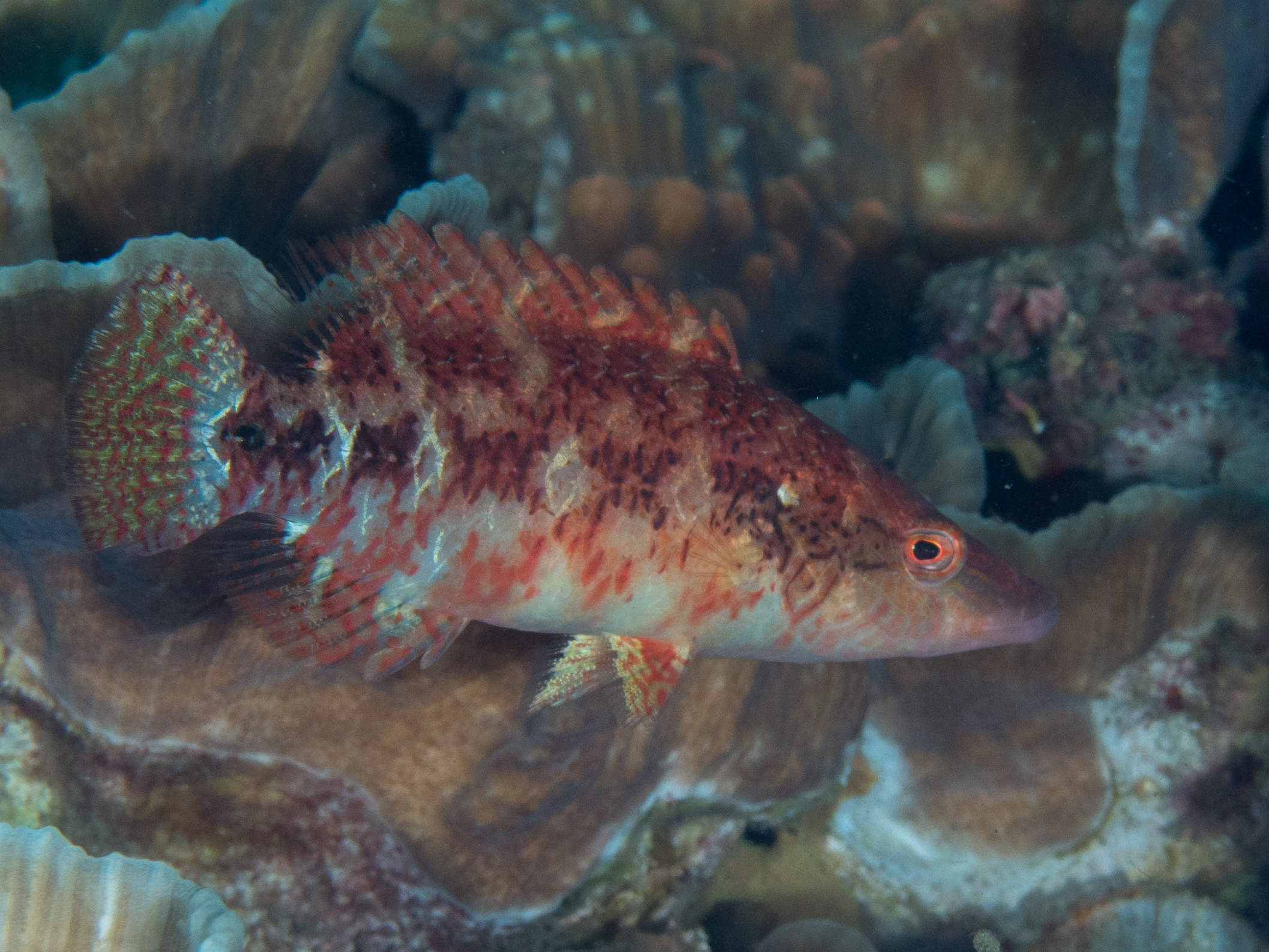 Lembeh, Indonesia - Celebes wrasse (Oxycheilinus celebicus)